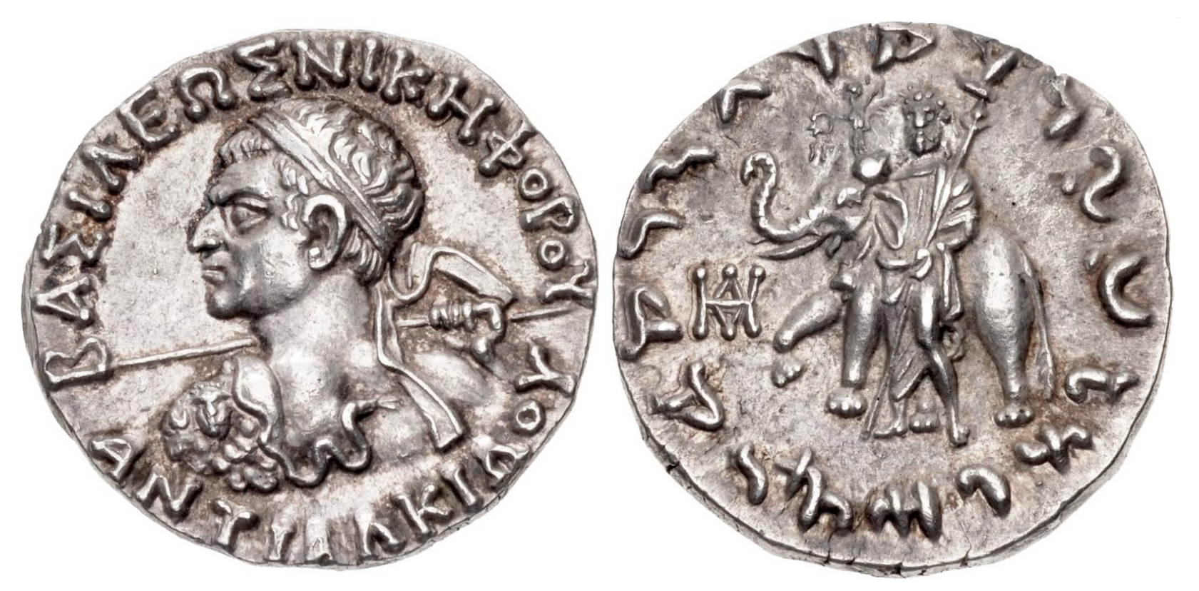 Coin of the Indo-Graeco king Antialkidas. Obverse: Bust of Antialcidas wearing aegis and holding a spear, with Greek legend BASILEOS NIKEPHOROU ANTIALKIDOU "Of Victorious King Antialcidas". Reverse: Zeus with lotus-tipped sceptre, in front of an elephant with a bell (symbol of Taxila), surmounted by Nike holding a wreath, crowning the elephant. Kharoshti legend: MAHARAJASA JAYADHARASA ANTIALIKITASA "Victorious King Antialcidas". Pushkalavati mint.